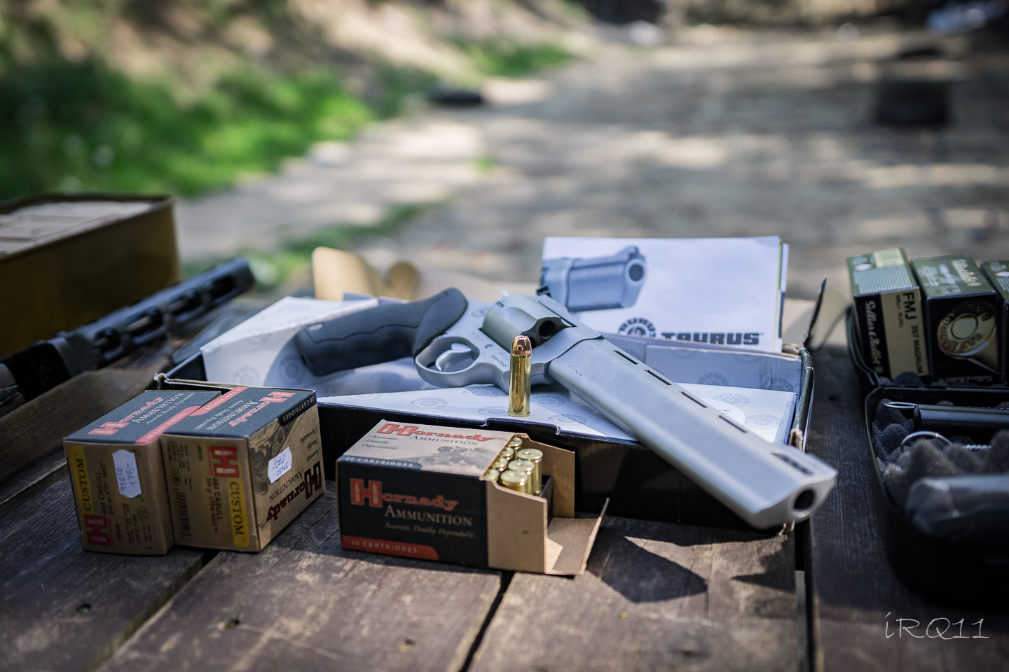 Rewolwer Taurus Raging Bull 454 Casull